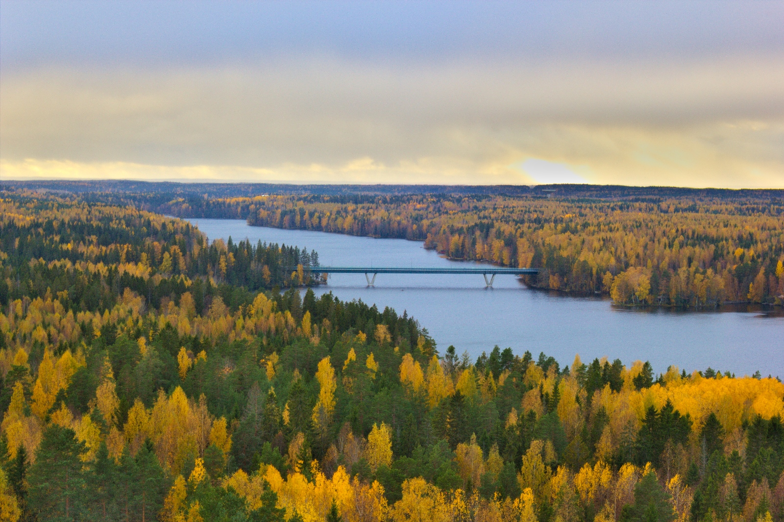 Lake Särkijärvi from Hervanta water tower in Tampere, Finland